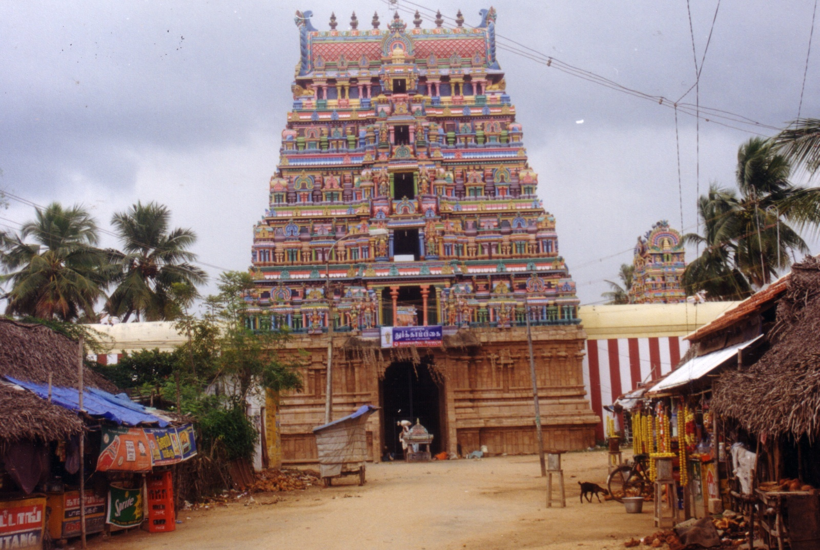 Patteeswaram Durga Temple Gopuram view, on an evening in 1999. This temple is located in Tamil Nadu, India.